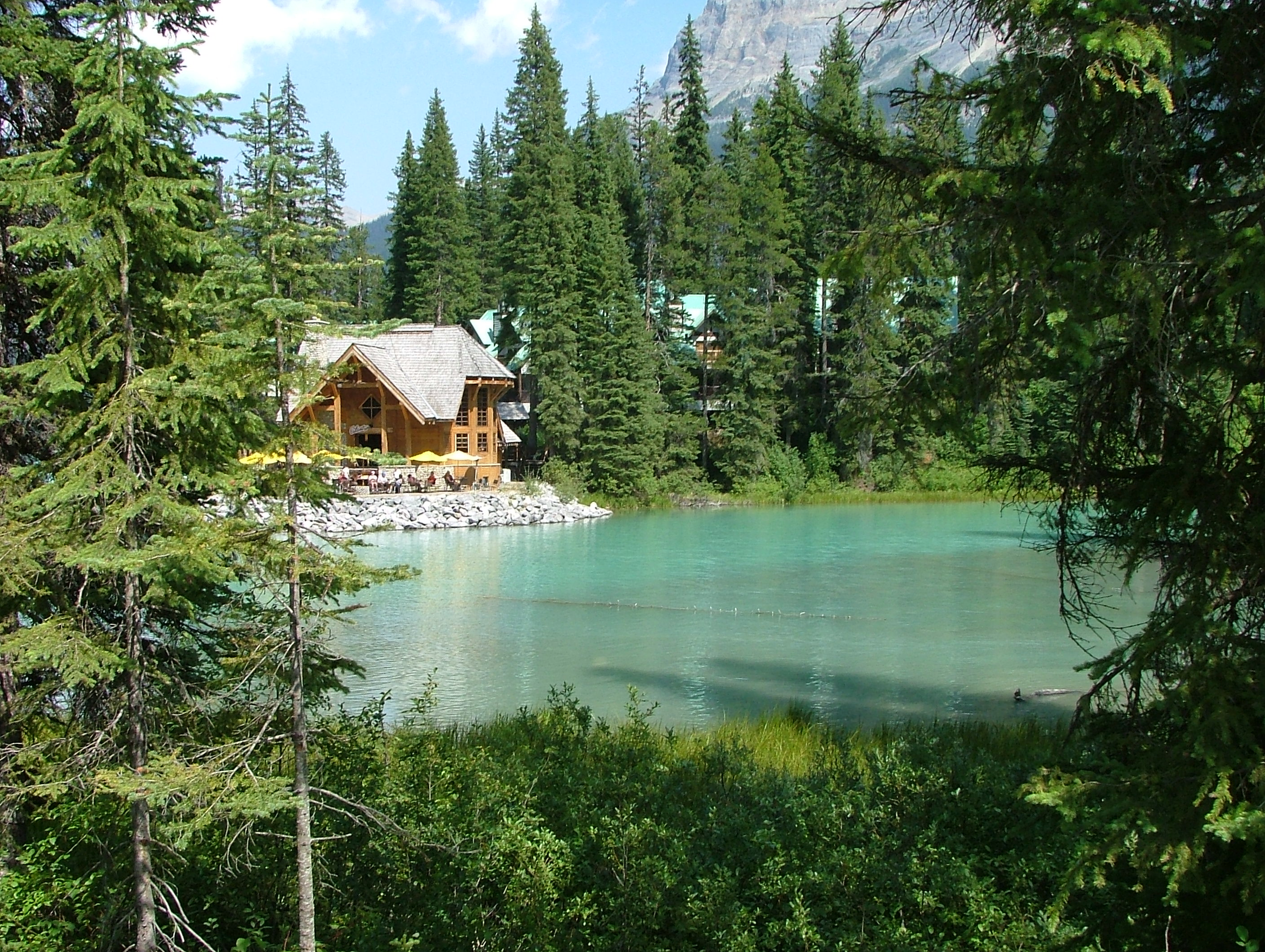 "Cilantro", the restaurant at Emerald Lake